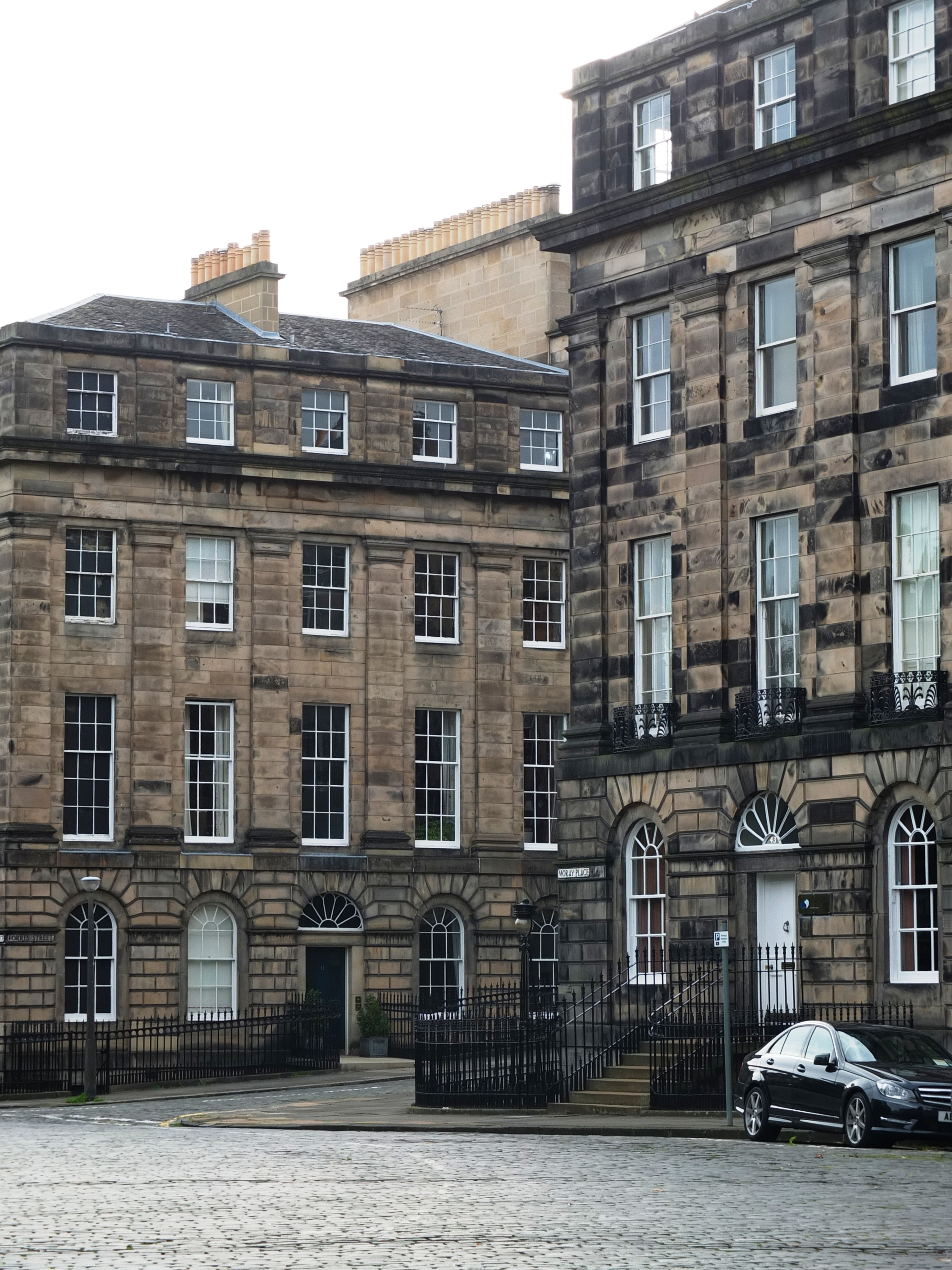 11 Forres Street and 50 Moray Place